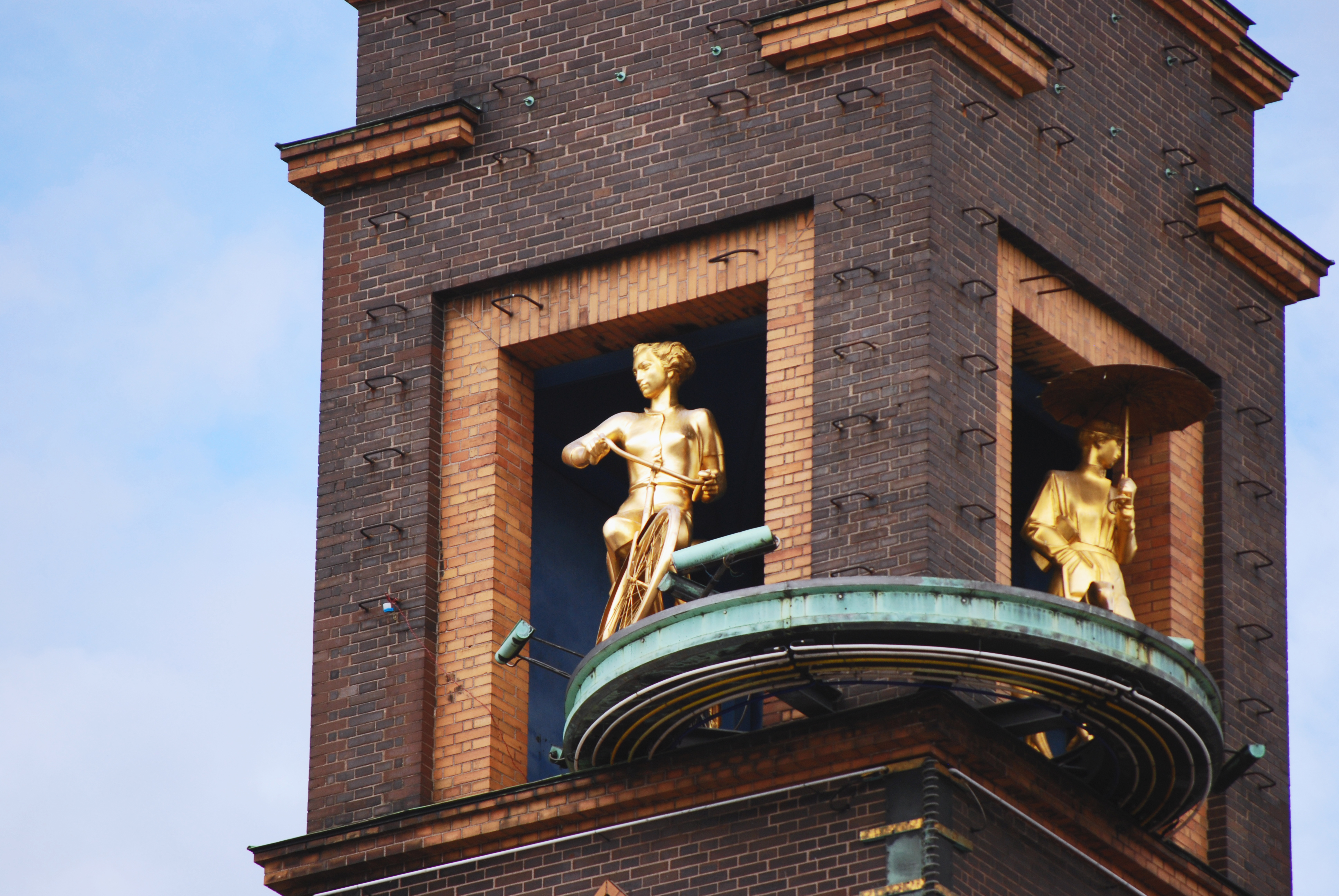 Facade detail of Richshuset, a building on the corner of Rådhuspladsen and Vesterbrogade in Copenhagen, Denmark, showing brickwork, architectural details and the mobile, weather-forcasting sculpture The Weather Girls by Einar Utzon-Frank.